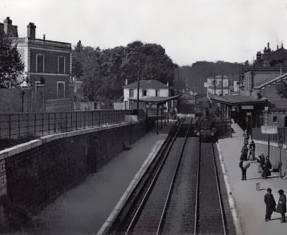 Scan of an old postcard. The tittle of the postcard was "Bellevue la gare rive gauche" Fin XIXe siècle ou début XXe